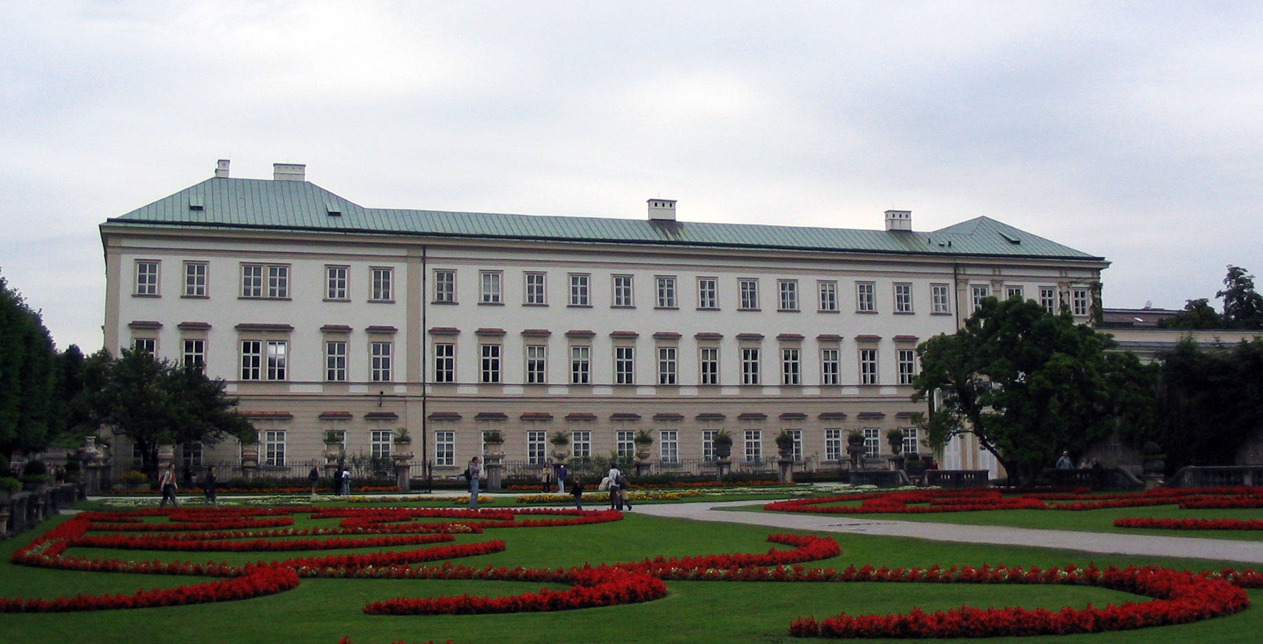 Austria, Salzburg, Mirabell Palace